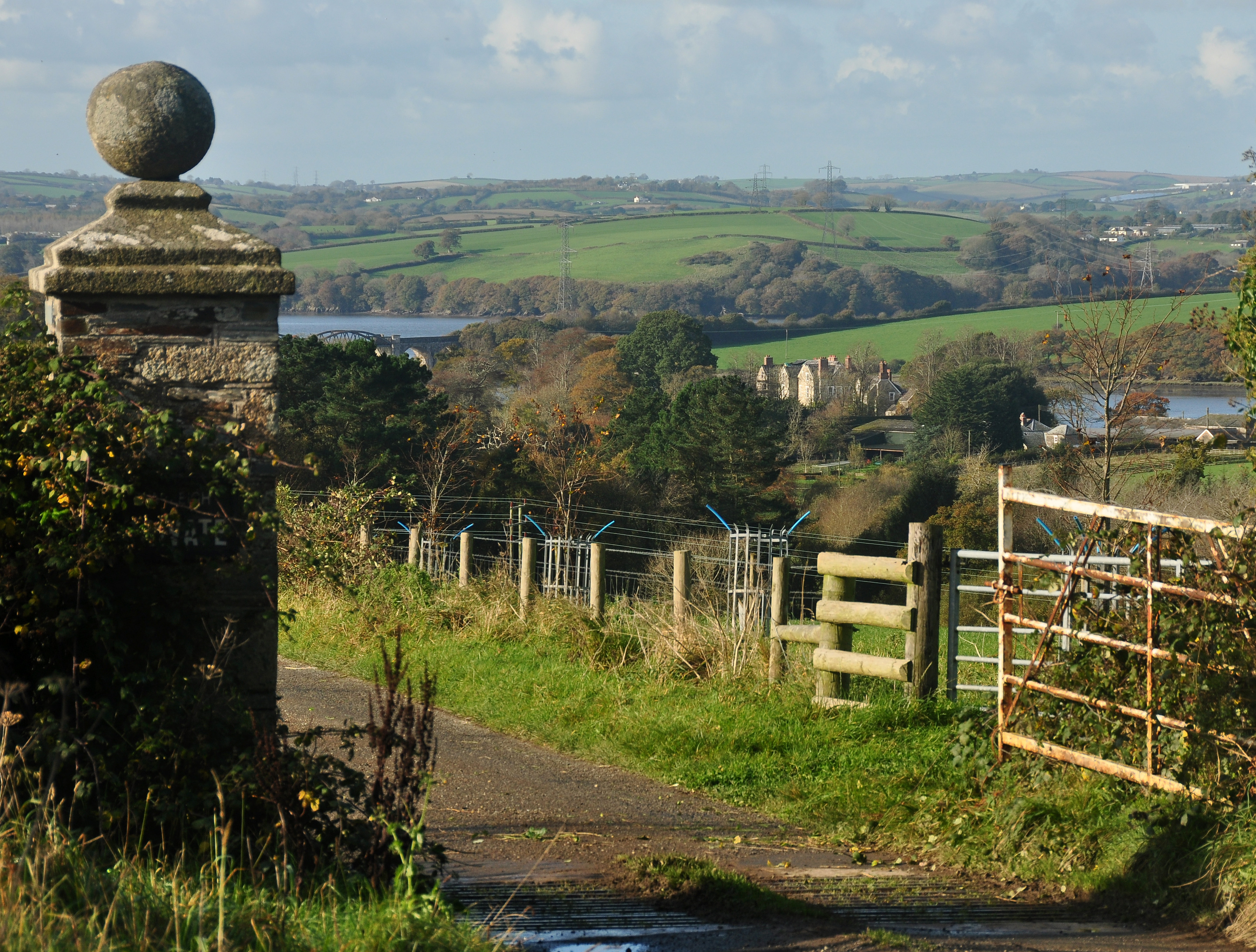 The gate to the Warleigh House estate near Tamerton Foliot, Plymouth. The house is just visible above the Tavy Estuary.